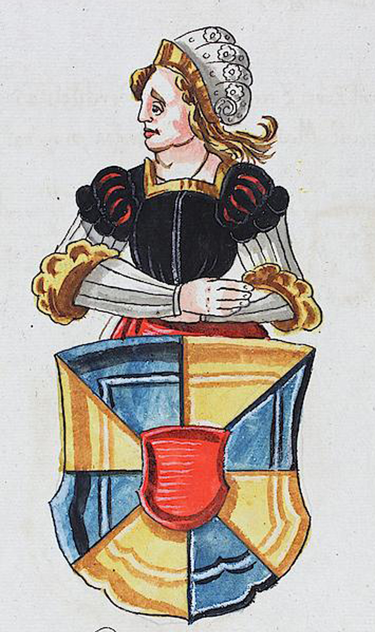 Ida, Countess regnant of Boulogne, and Duchess consort of Zahringen. She is here metioned as of Flanders because her father, Matthias of Alsace, was son of Thierry, Count of Flanders